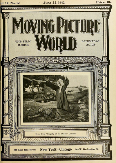 Front page of The Moving Picture World, June 22, 1912